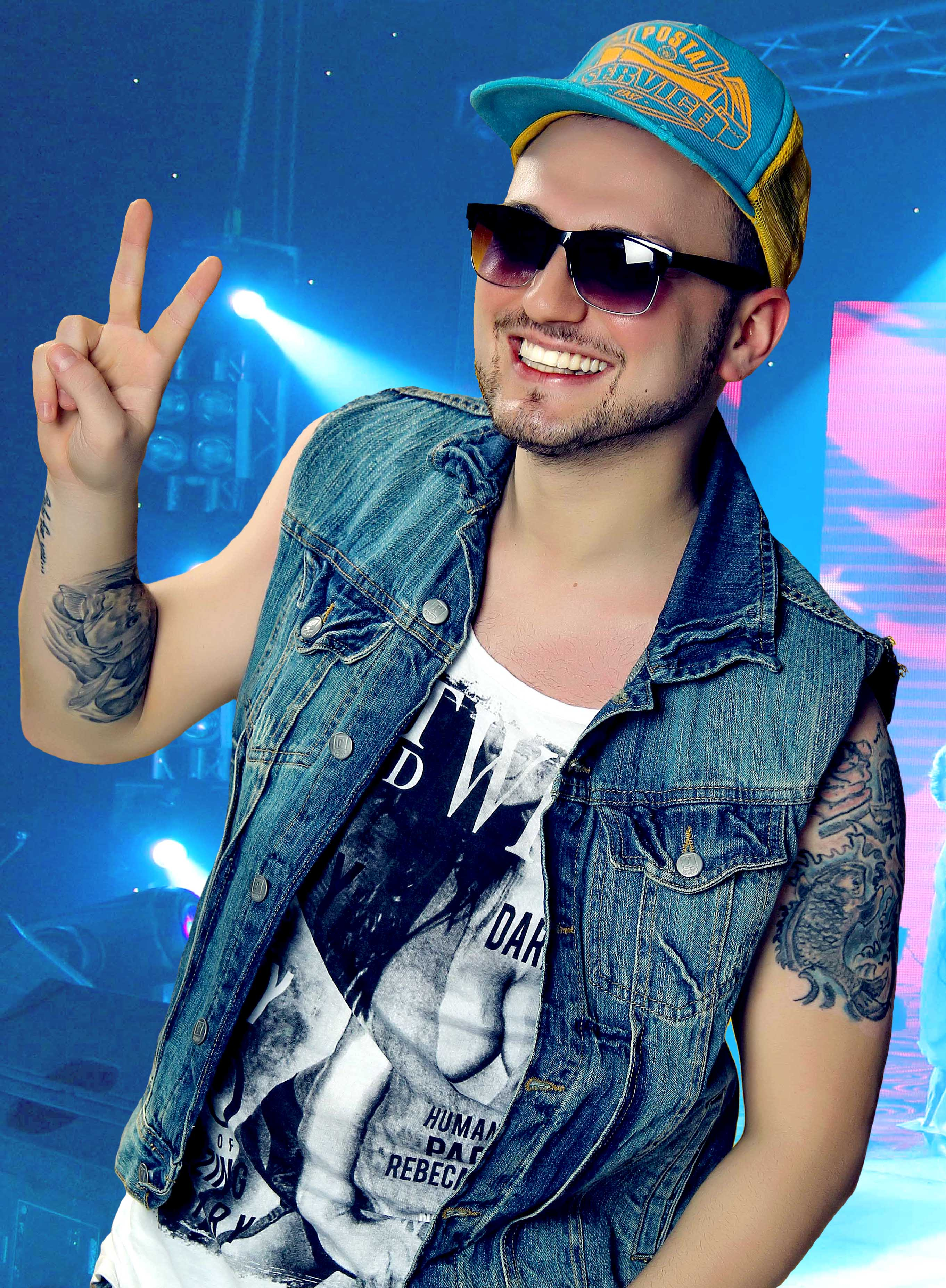 Leo Jee cropped